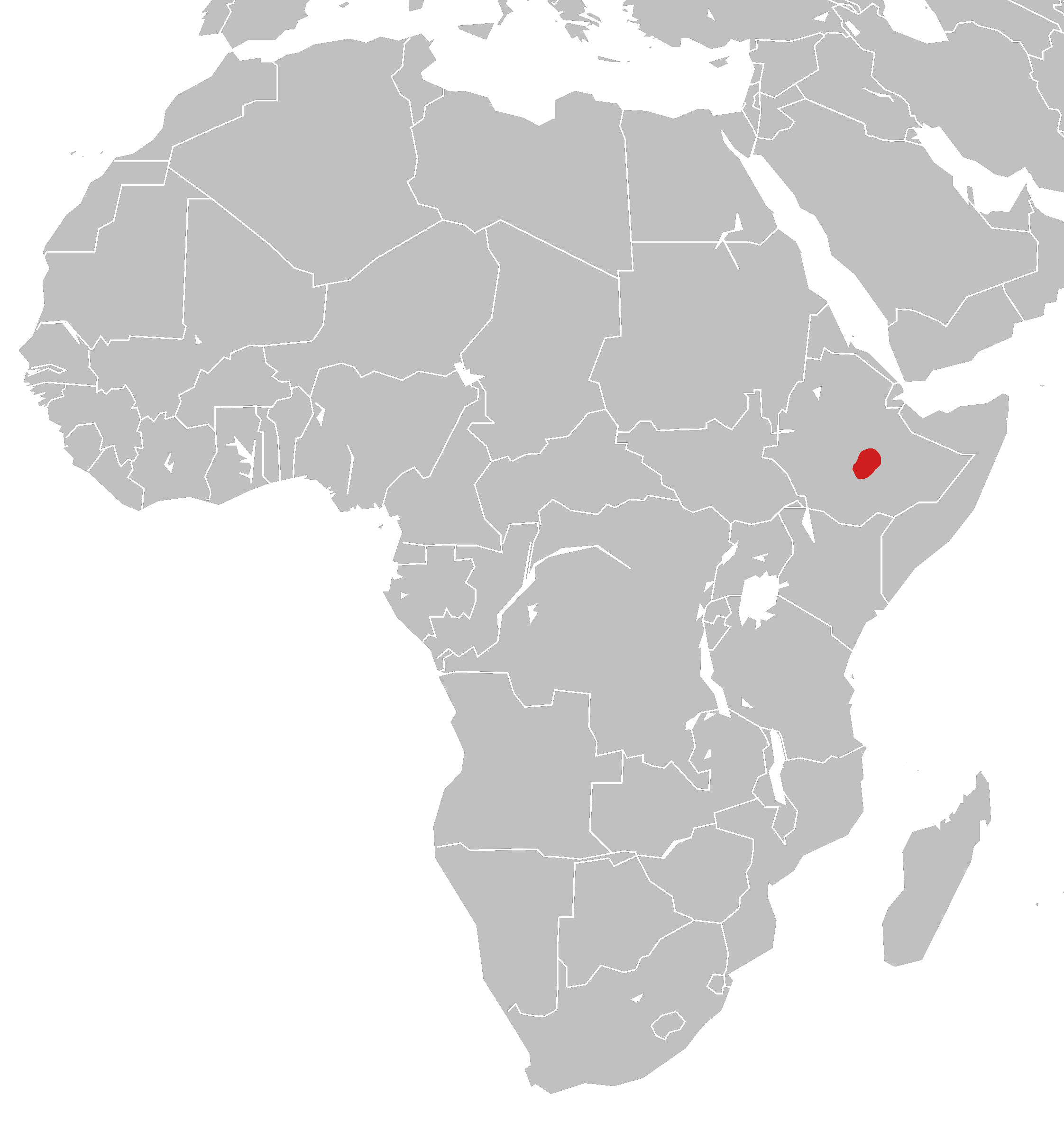 Distribution of Bitis harenna based on [1].